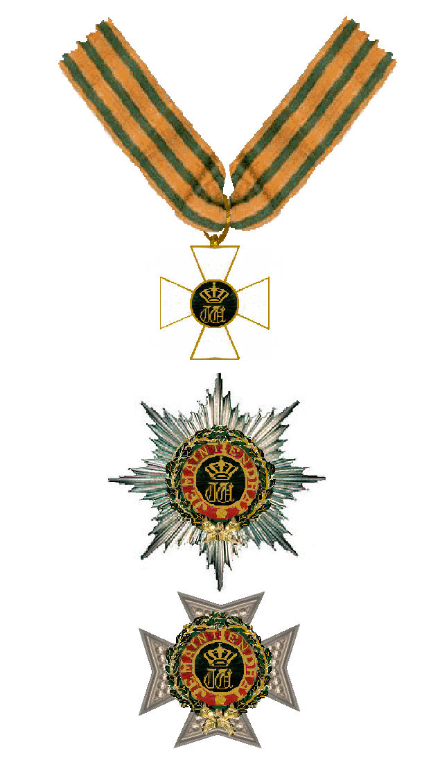 Ordre de la couronne de Chêne Order of the Oak Crown Luxemburg